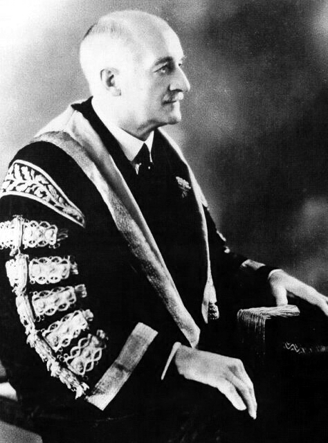 ceremonial photograph of Sir William Peel